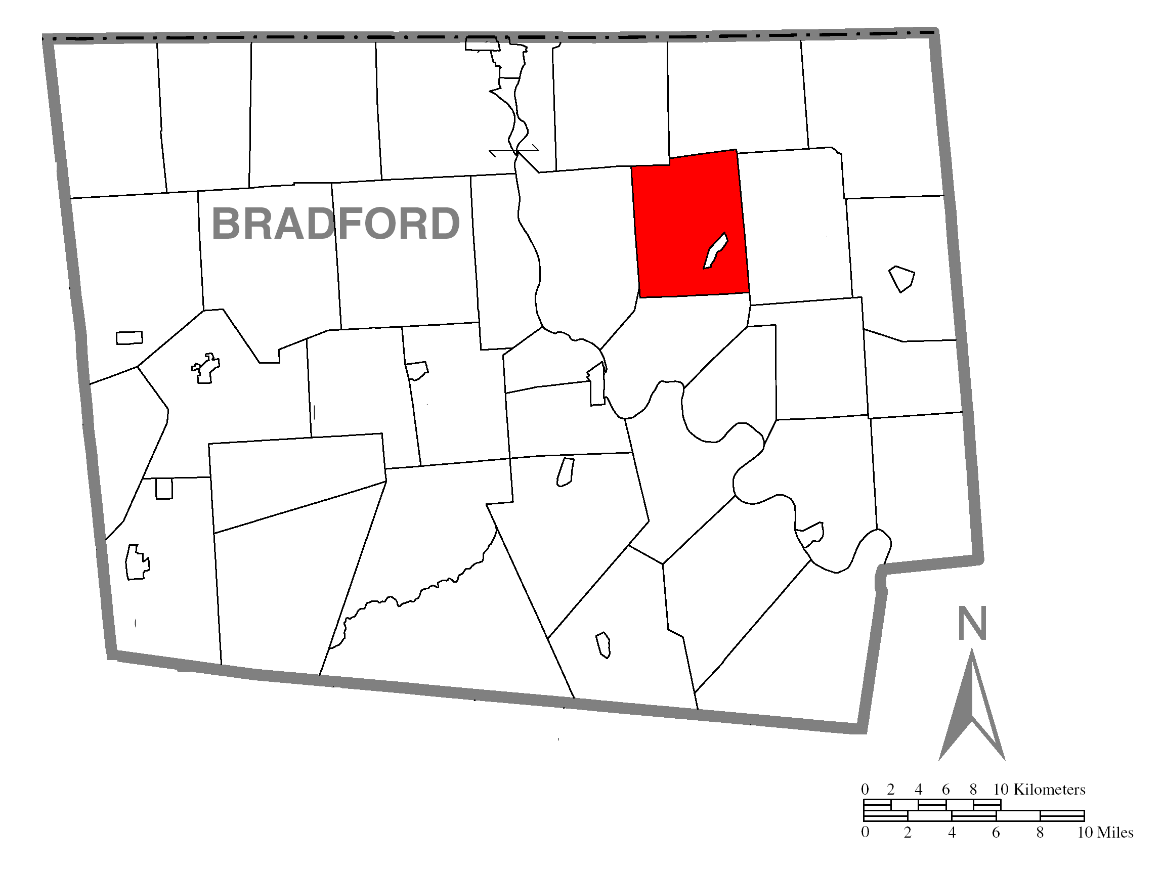 A map of Bradford County showing Rome Township, Pennsylvania (alternate) highlighted on the map.